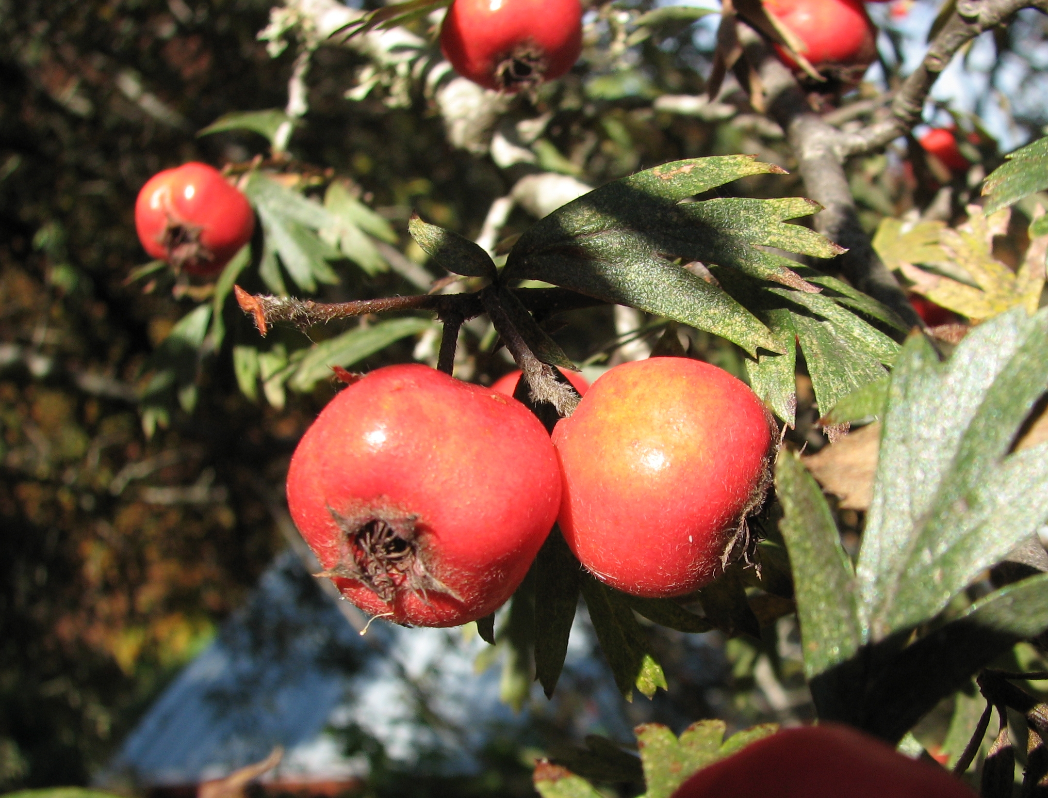 Crataegus orientalis subsp. orientalis, Pirianda Garden, Victoria, Australia. [The plant had been cultivated and mislabelled as Crataegus tanacetifolia: see [1].]